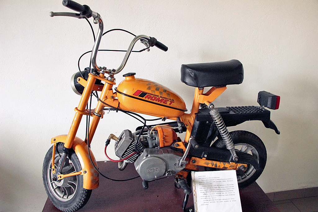 This photo was taken during Automotive Wikiexpedition 2016 set up by Wikimedia Polska Association. You can see all photographs in category Wikiekspedycja motoryzacyjna 2016. English | Polski | +/−